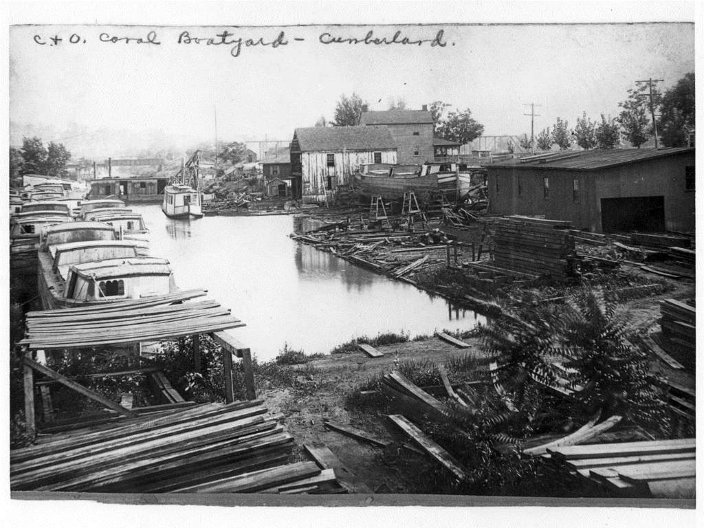 Pic of the Boatyard in the Cumberland Basin, of the Chesapeake and Ohio Canal.